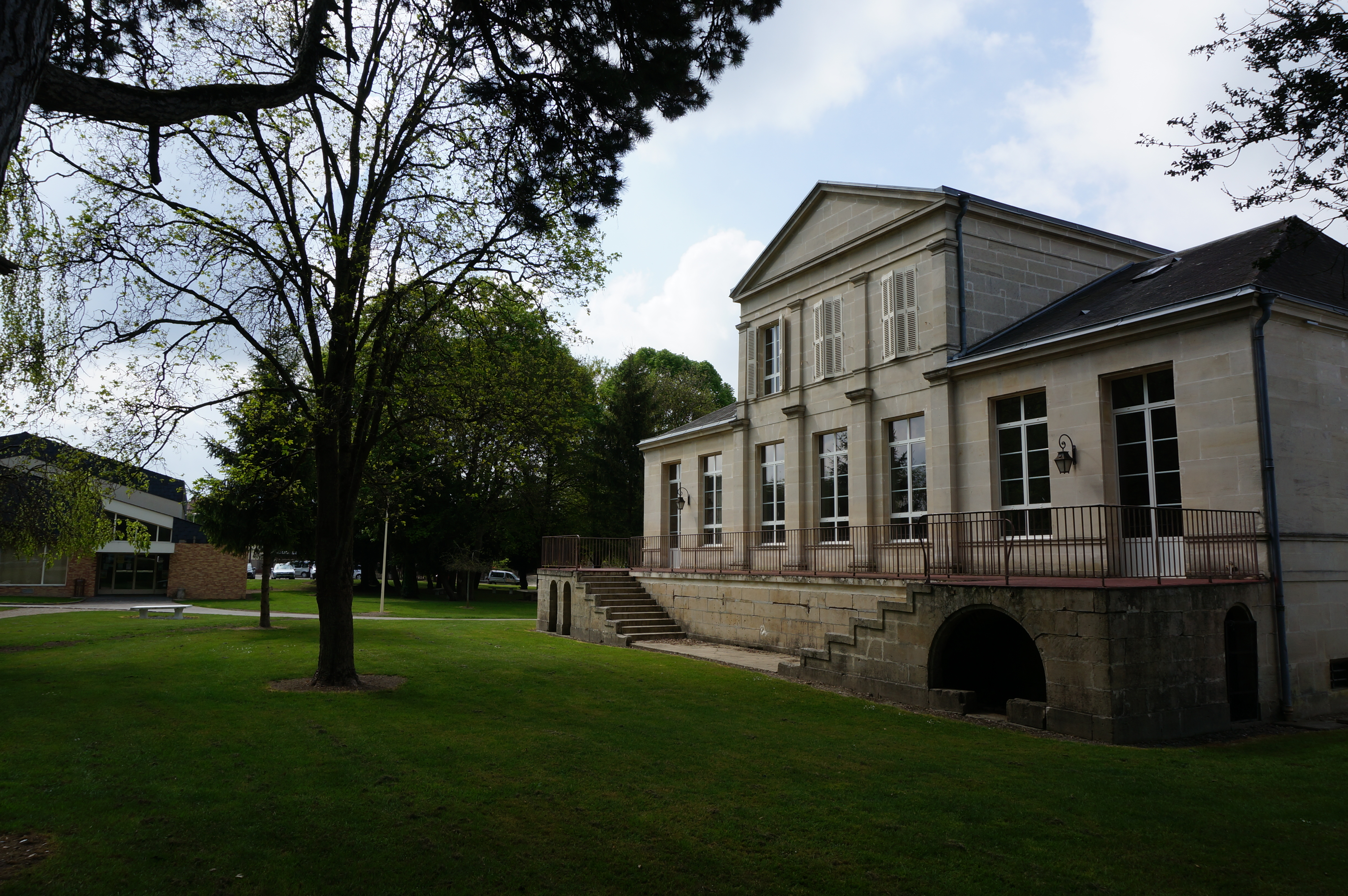 Mairie à Couvrot.